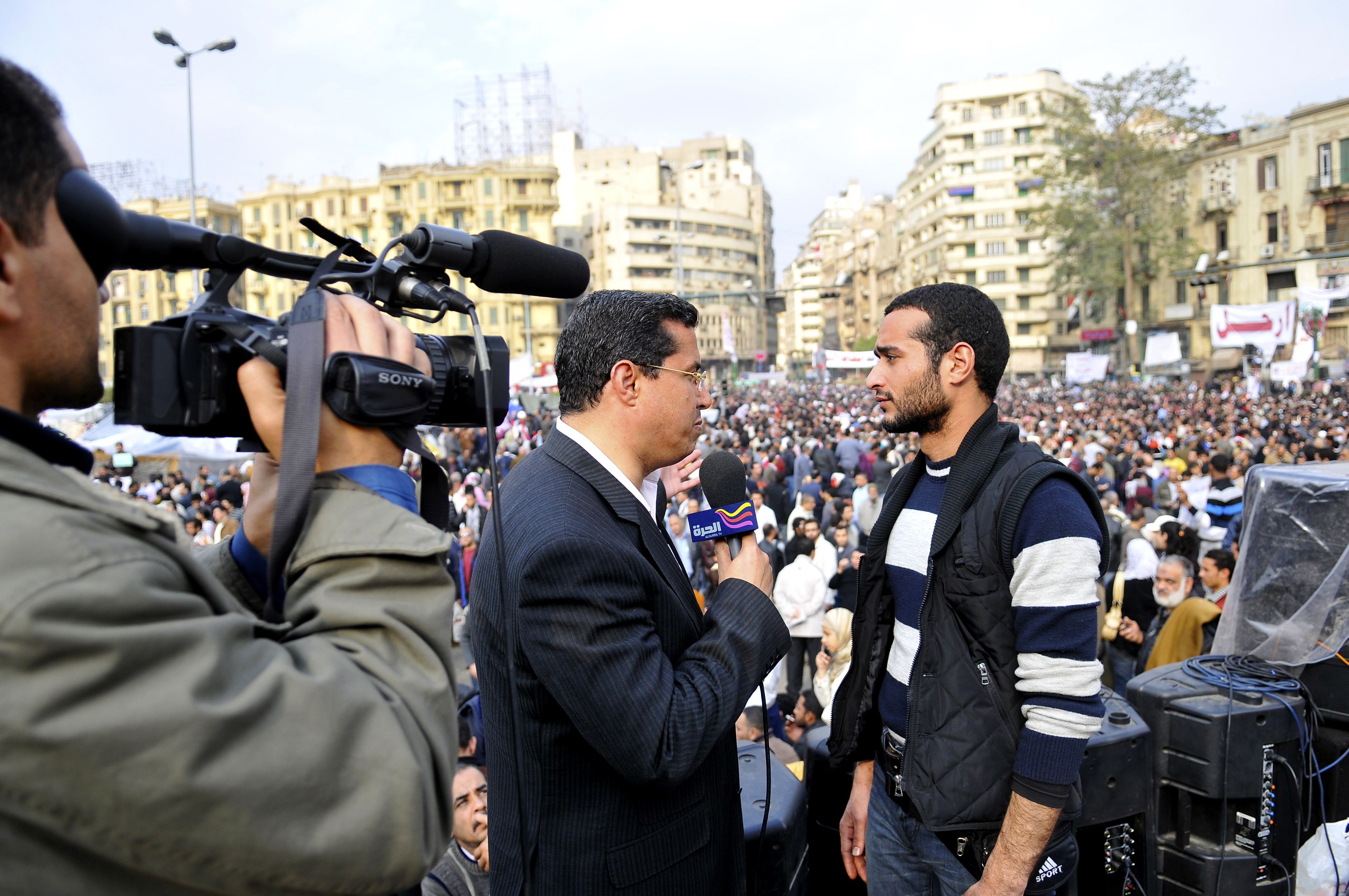 Alhurra anchor interviews protester (Ahmed Duma) in Tahrir Square, February 7, 2011